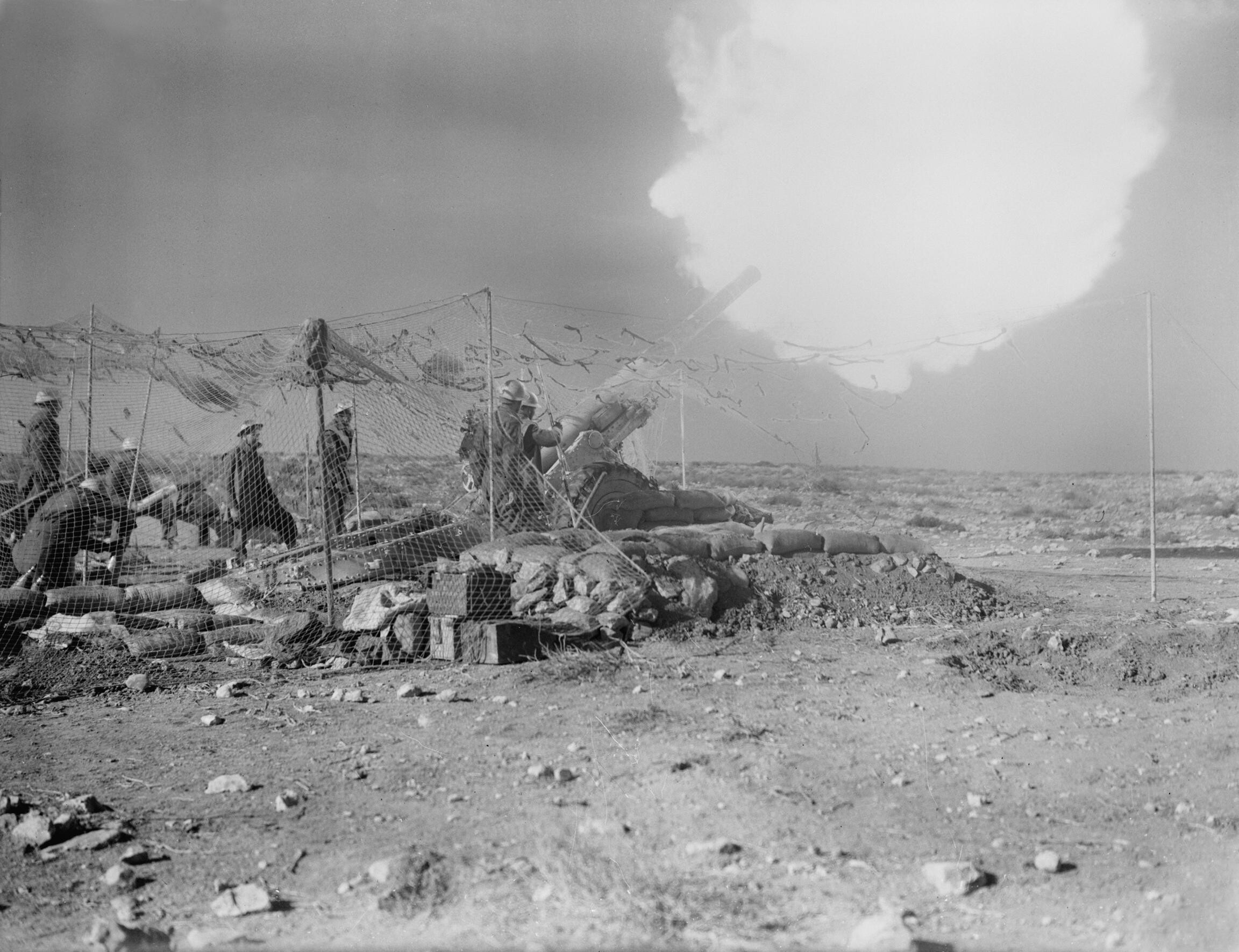 The British Army in North Africa 1941 A 4.5 inch field gun being used against the defences of Derna, 1 February 1941.